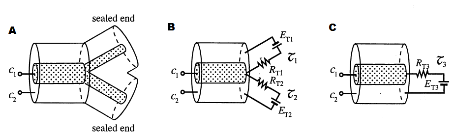 Adapted from the paper "A simple analytical method for determining the steady-state potential in models of geometrically complex neurons" by Arthur Vermeulen and Jean-Pierre Rospars